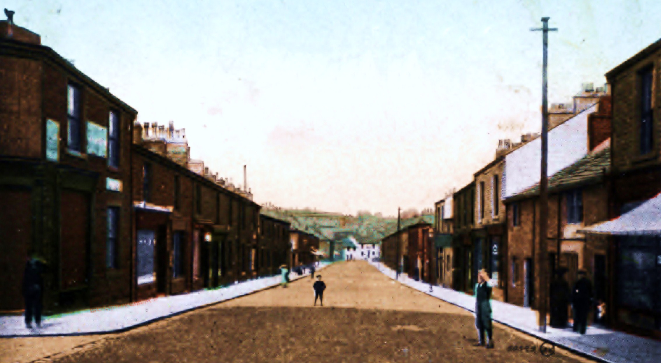 Old Postcard of Blackburn Road, Great Harwood